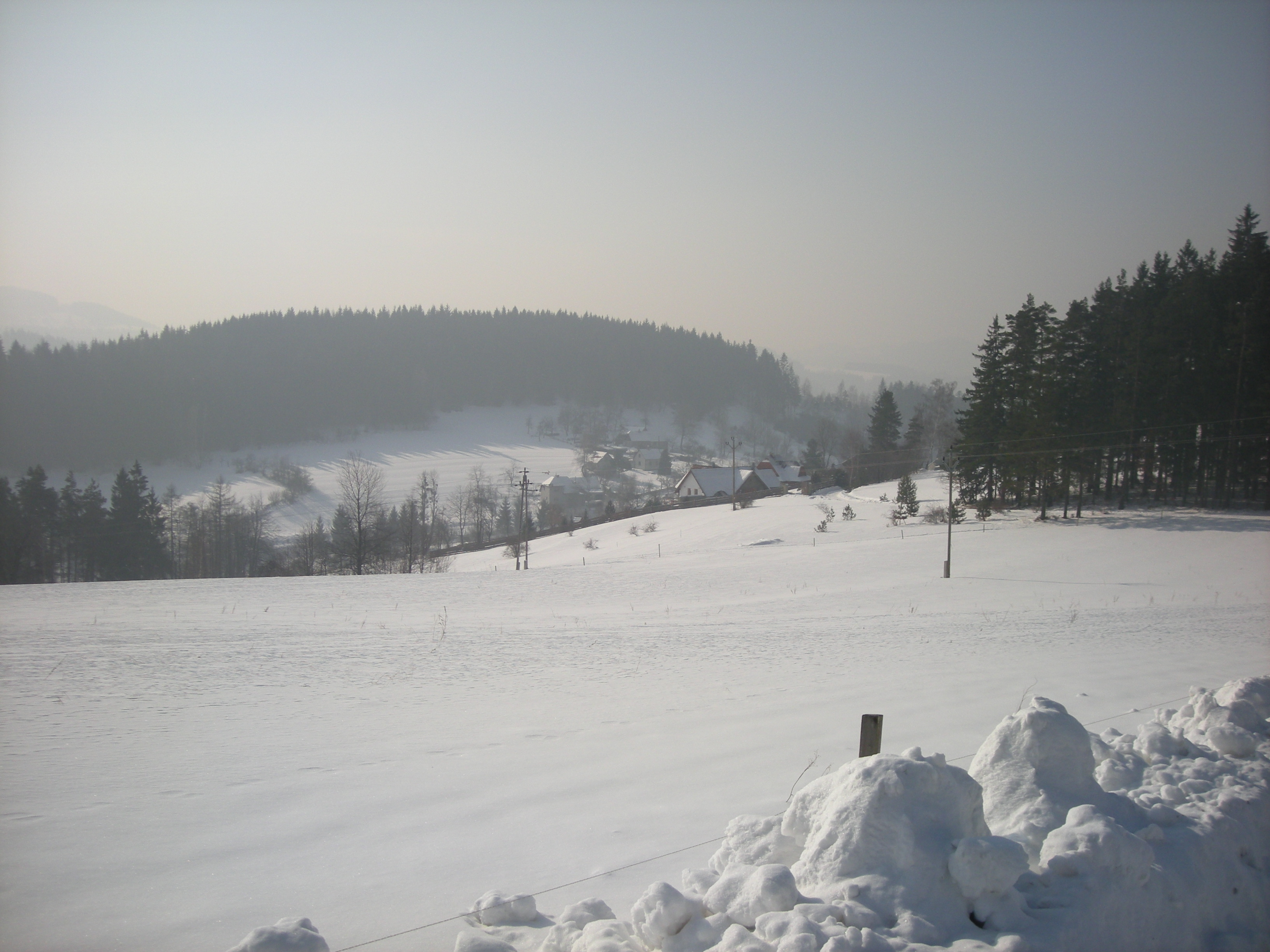 The Kyselky part in Valašská Bystřice-Hory with Boňkov Hill in the background